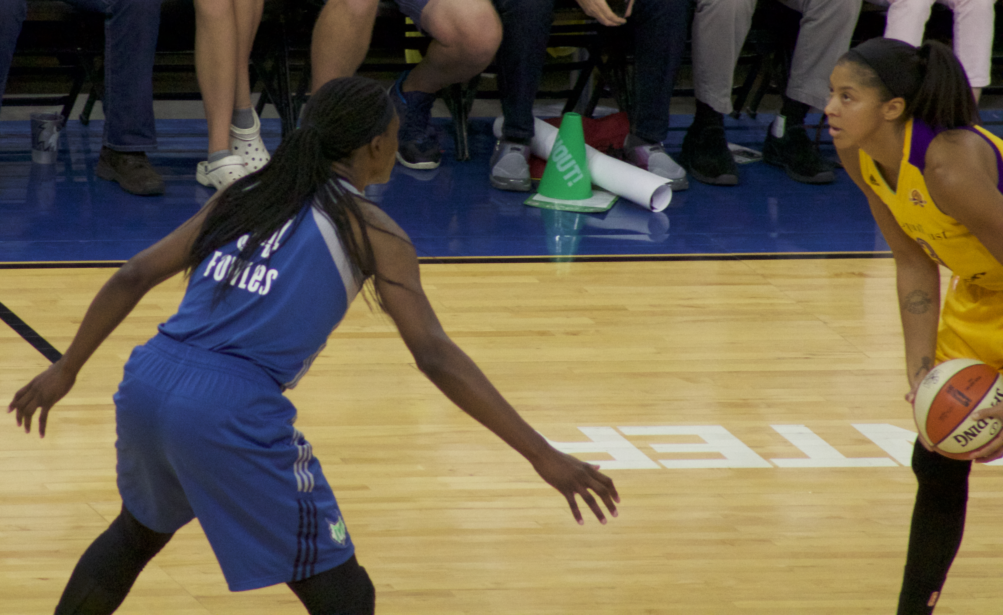 Sylvia Fowles guarding Candace Parker